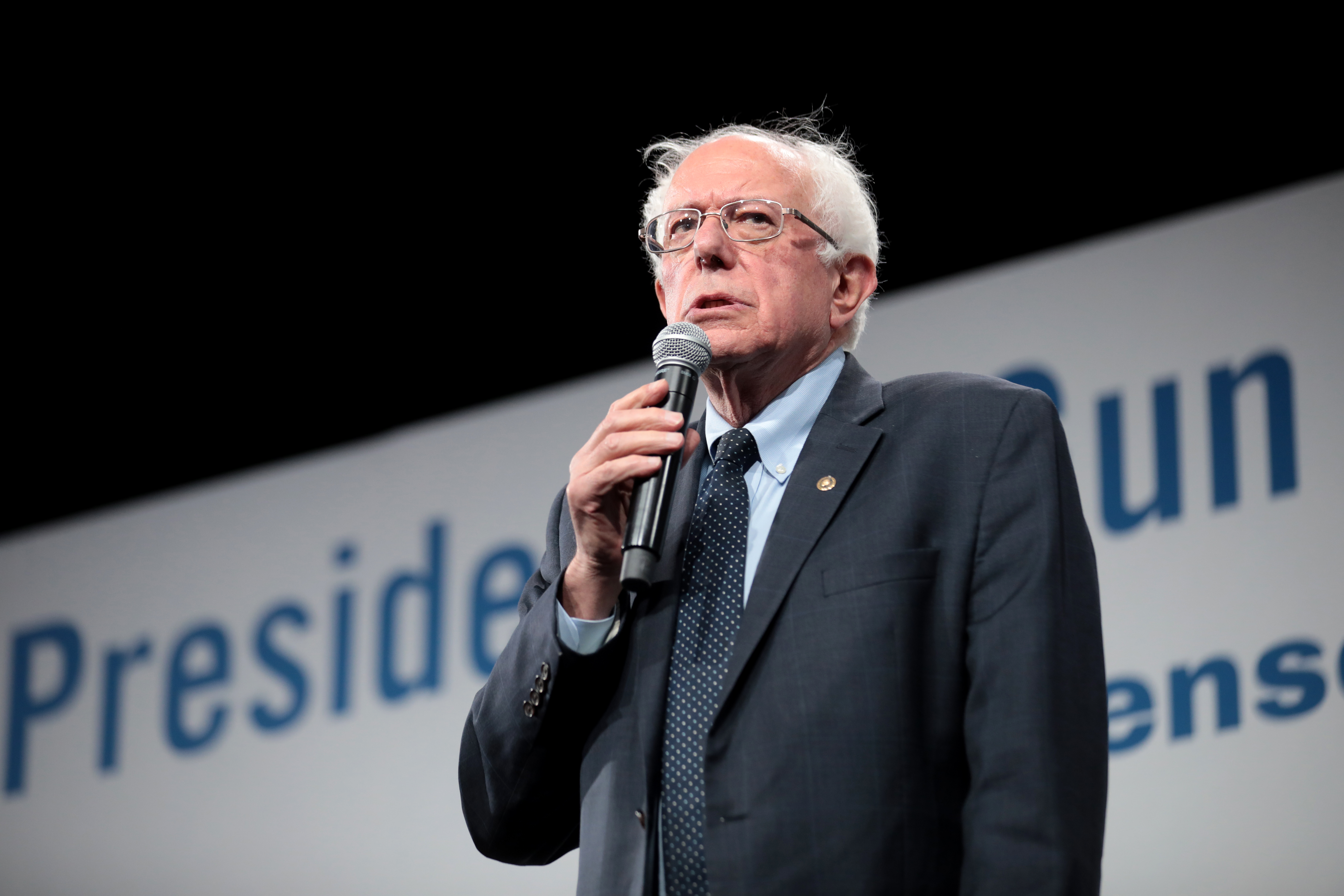 U.S. Senator Bernie Sanders speaking with attendees at the Presidential Gun Sense Forum hosted by Everytown for Gun Safety and Moms Demand Action at the Iowa Events Center in Des Moines, Iowa.